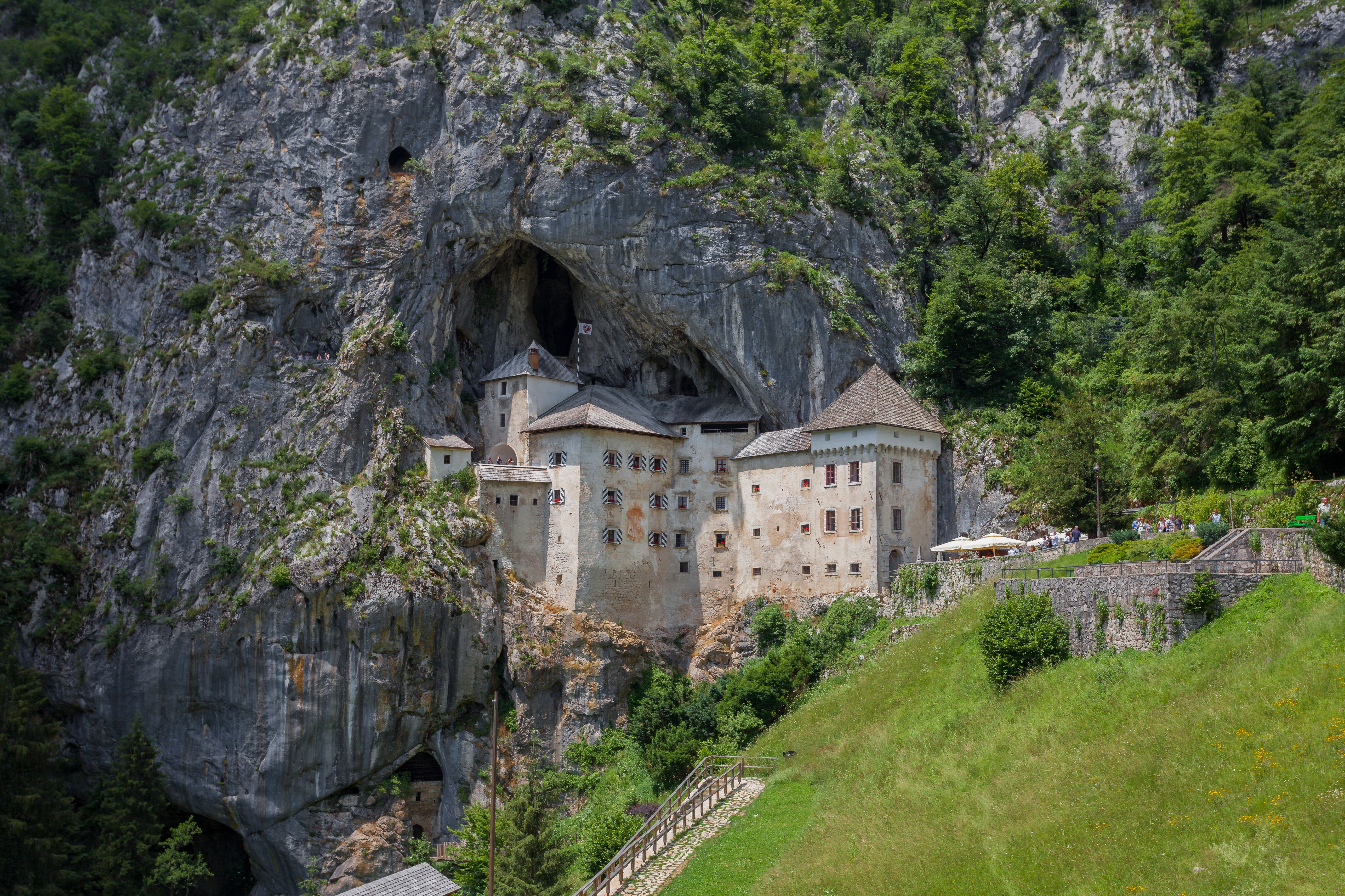 Predjama Castle